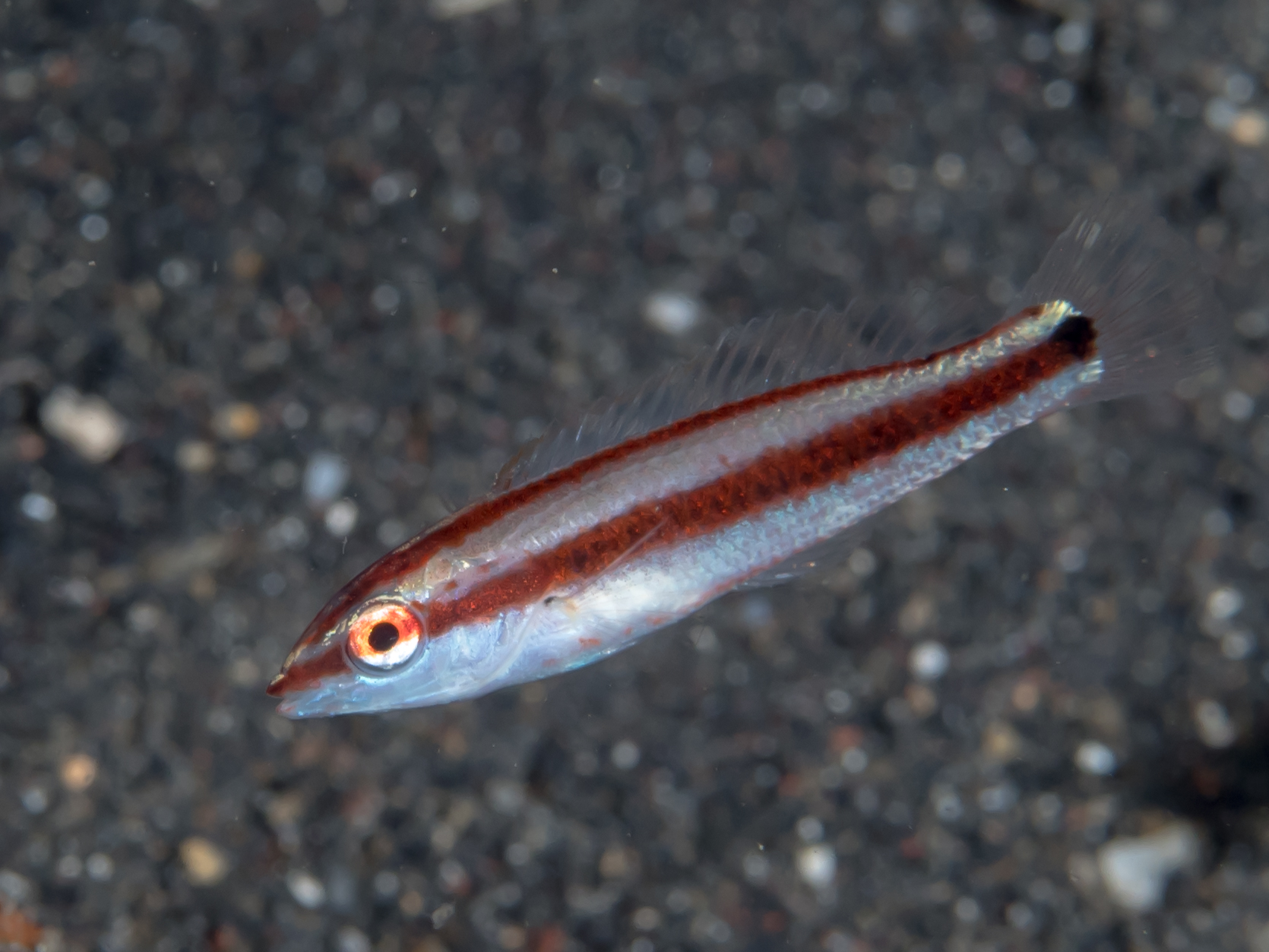 Lembeh, Indonesia - Goldstripe wrasse juvenile (Halichoeres hartzfeldii)